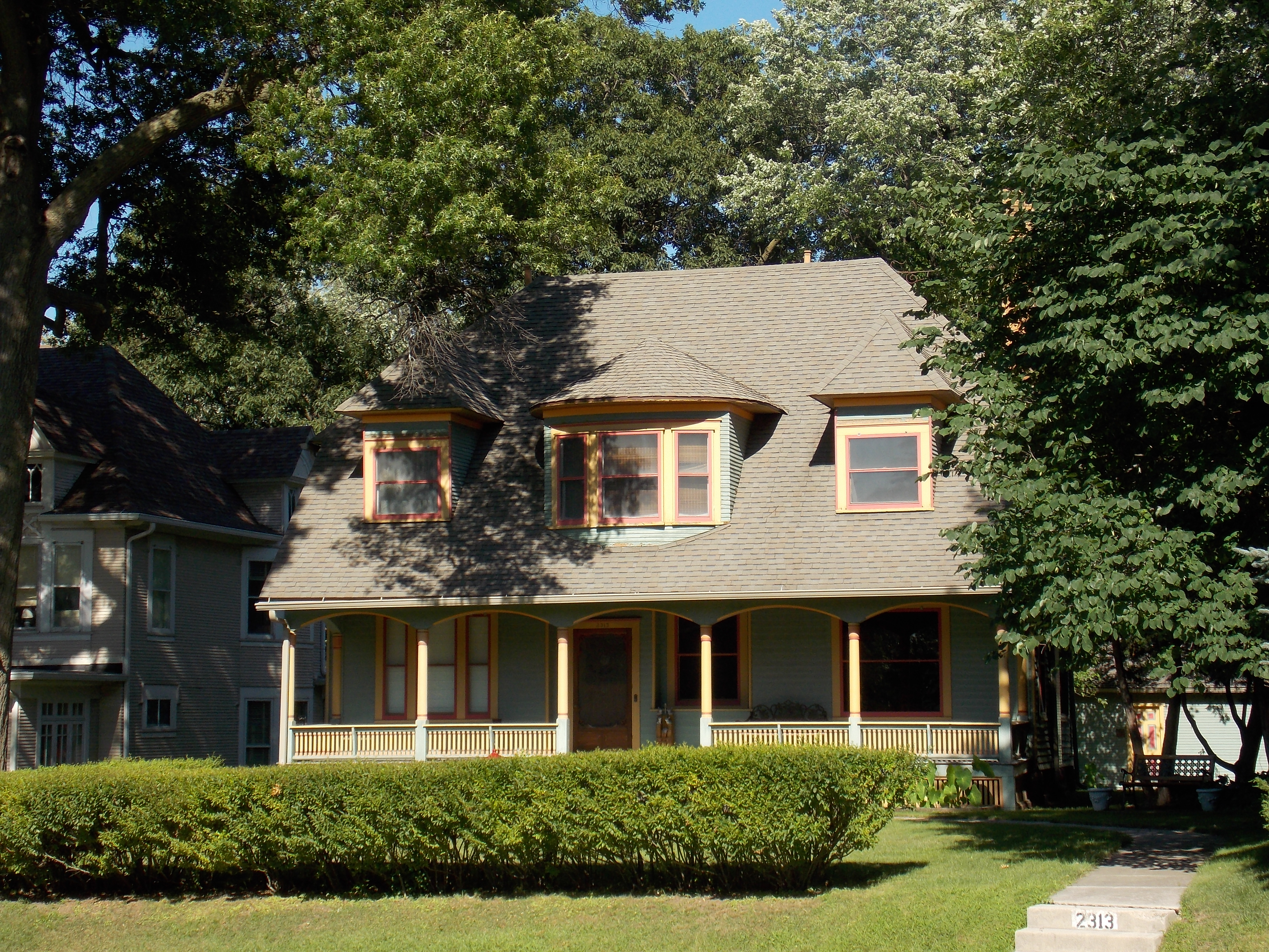 The Edward S. Hammatt House, 2313 Brady Street, is a contributing property in the Vander Veer Park Historic District in Davenport, Iowa.